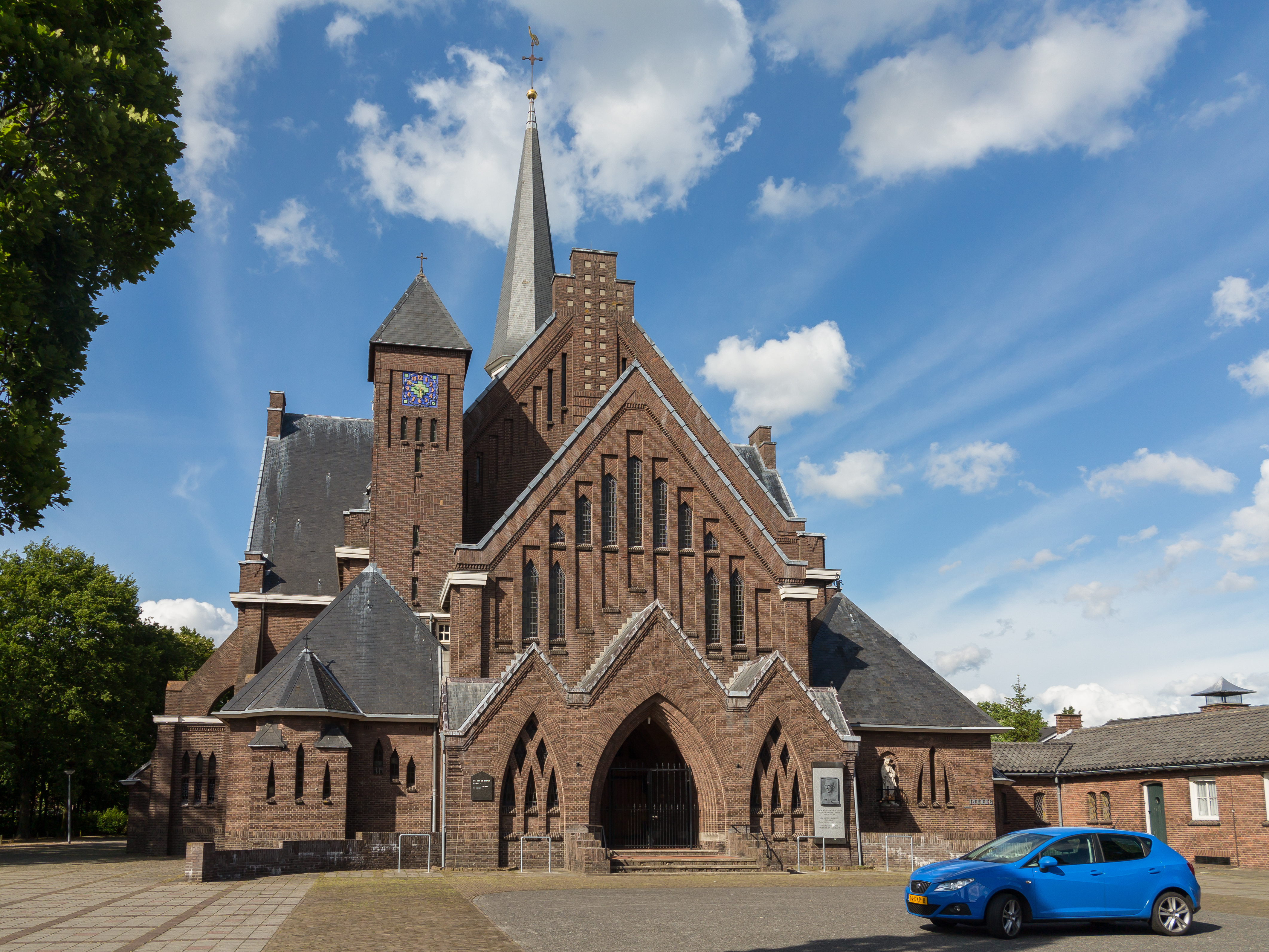 Hoeven, church: de Heilige Johannes de Doperkerk